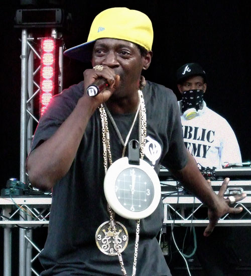 Flavor Flav from Public Enemy performing live at BBQ Beats, Riverstage Brisbane Australia.